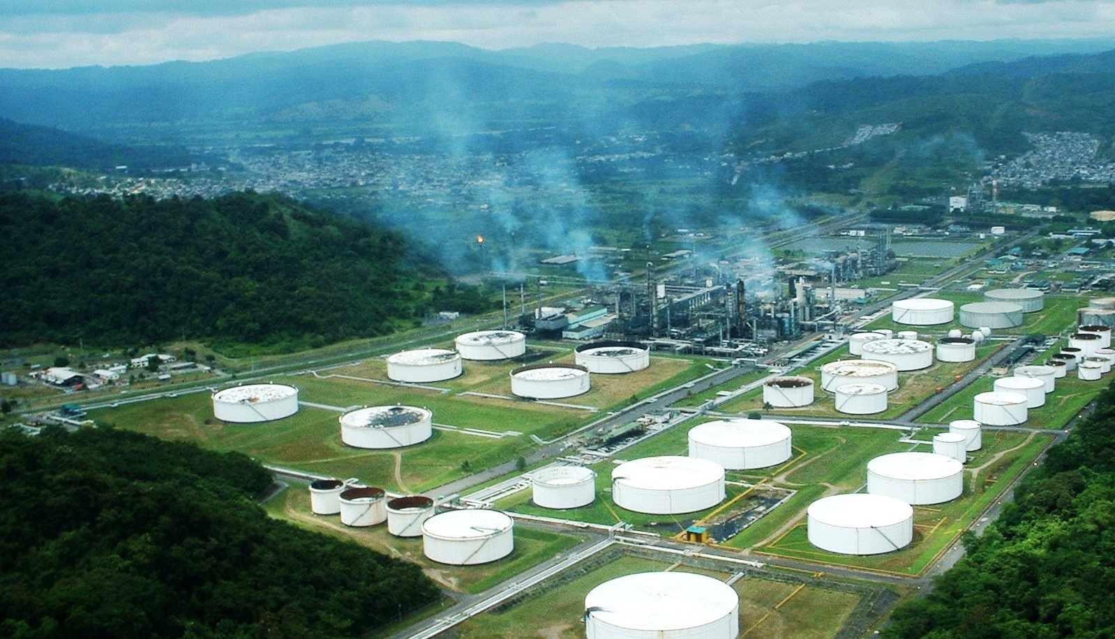 Refinaria petrolera